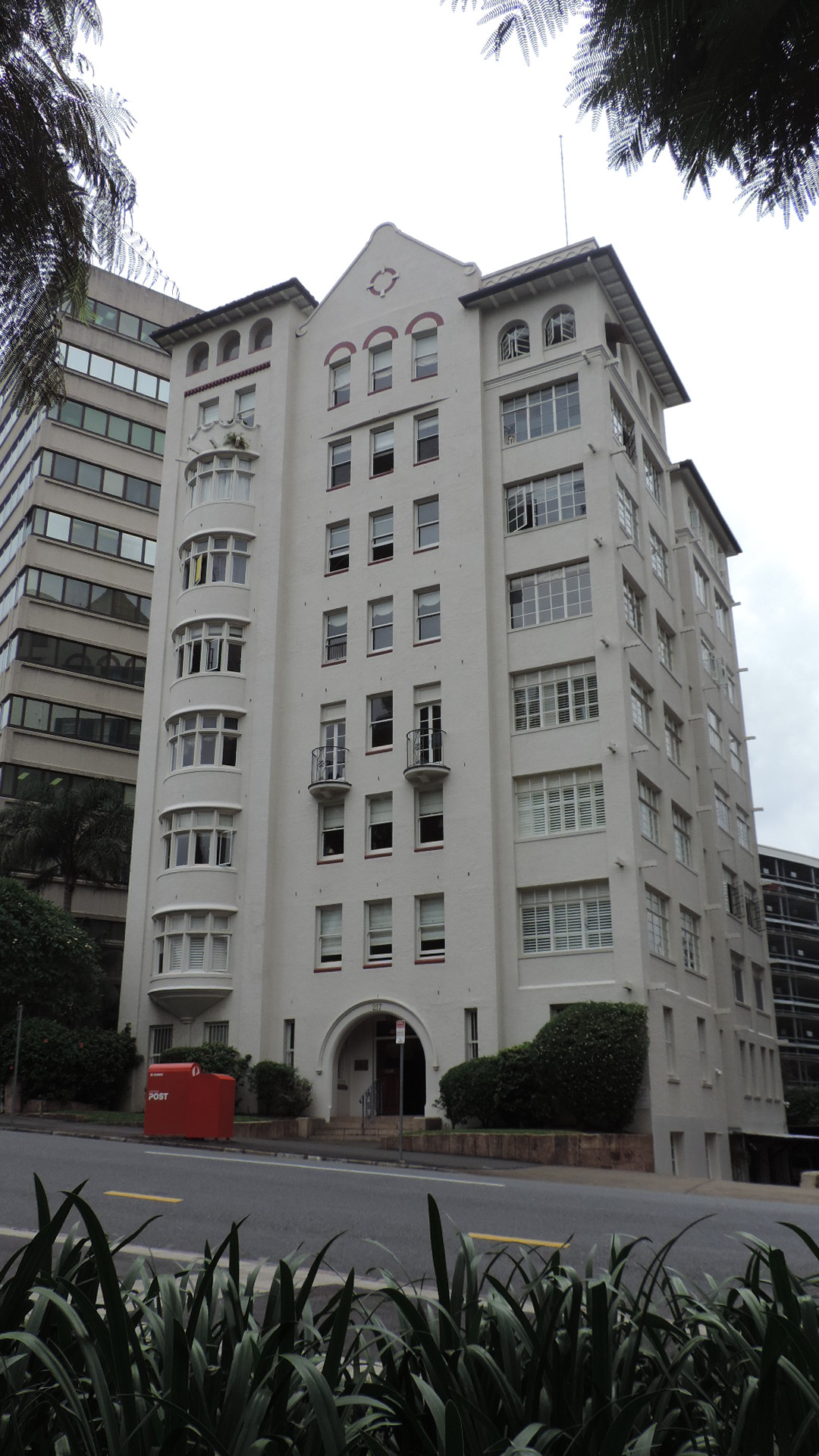 Craigston, Wickham Terrace as viewed from King Edward Park, 2015